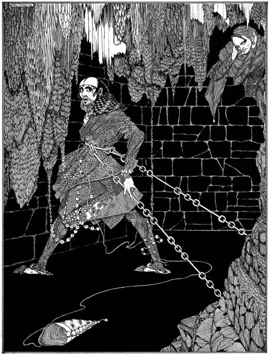 Illustration for Edgar Allan Poe's story "The Cask of Amontillado" by Harry Clarke (1889-1931), published in 1919.